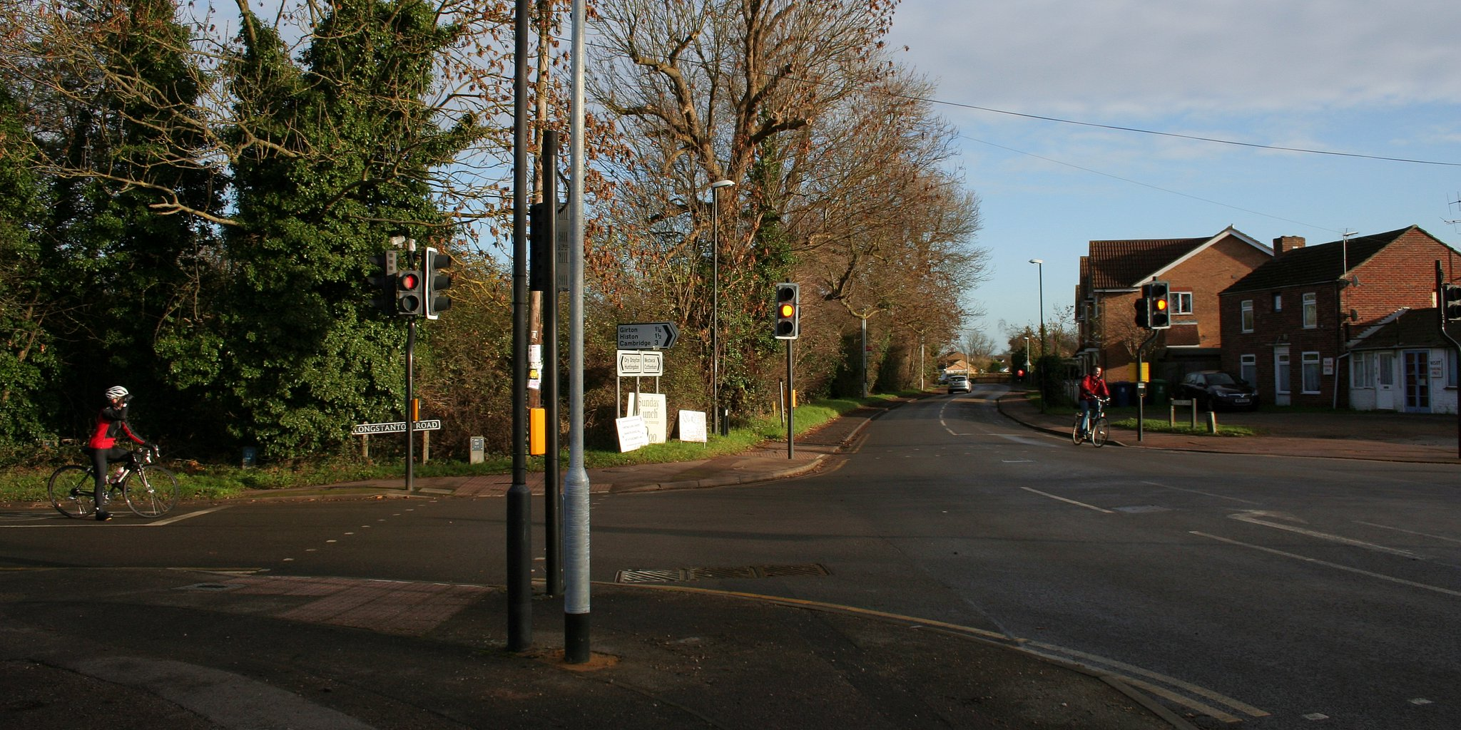 Oakington high street in December 2013.